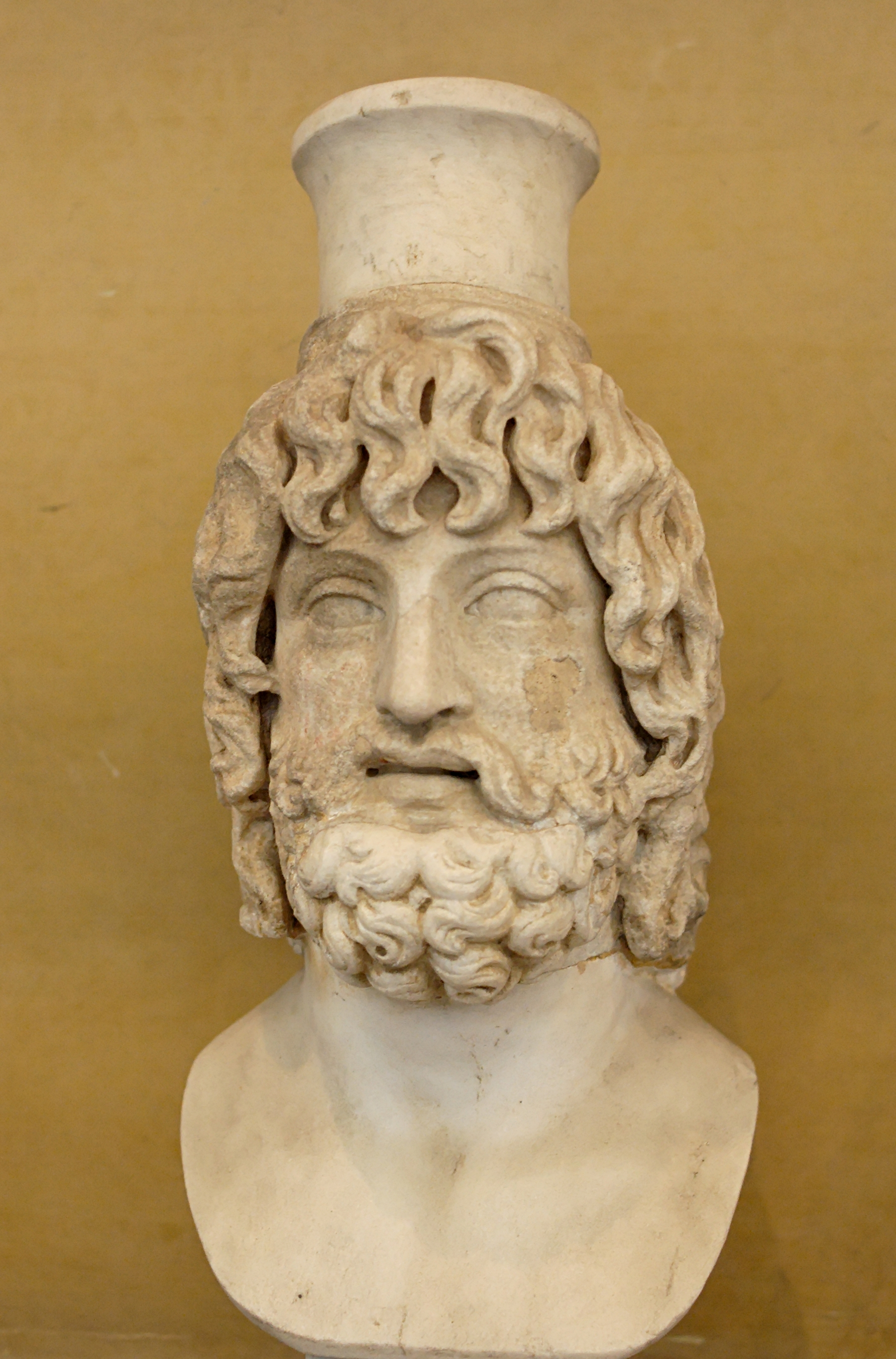 Bust of Serapis wearing the modius. Marble, Roman era.